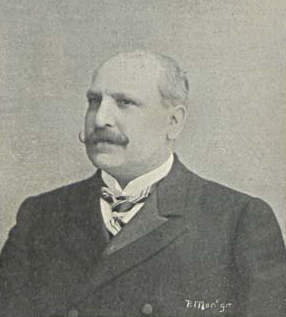 António Santos Júnior, first managing director of the Coliseu dos Recreios, in Lisbon